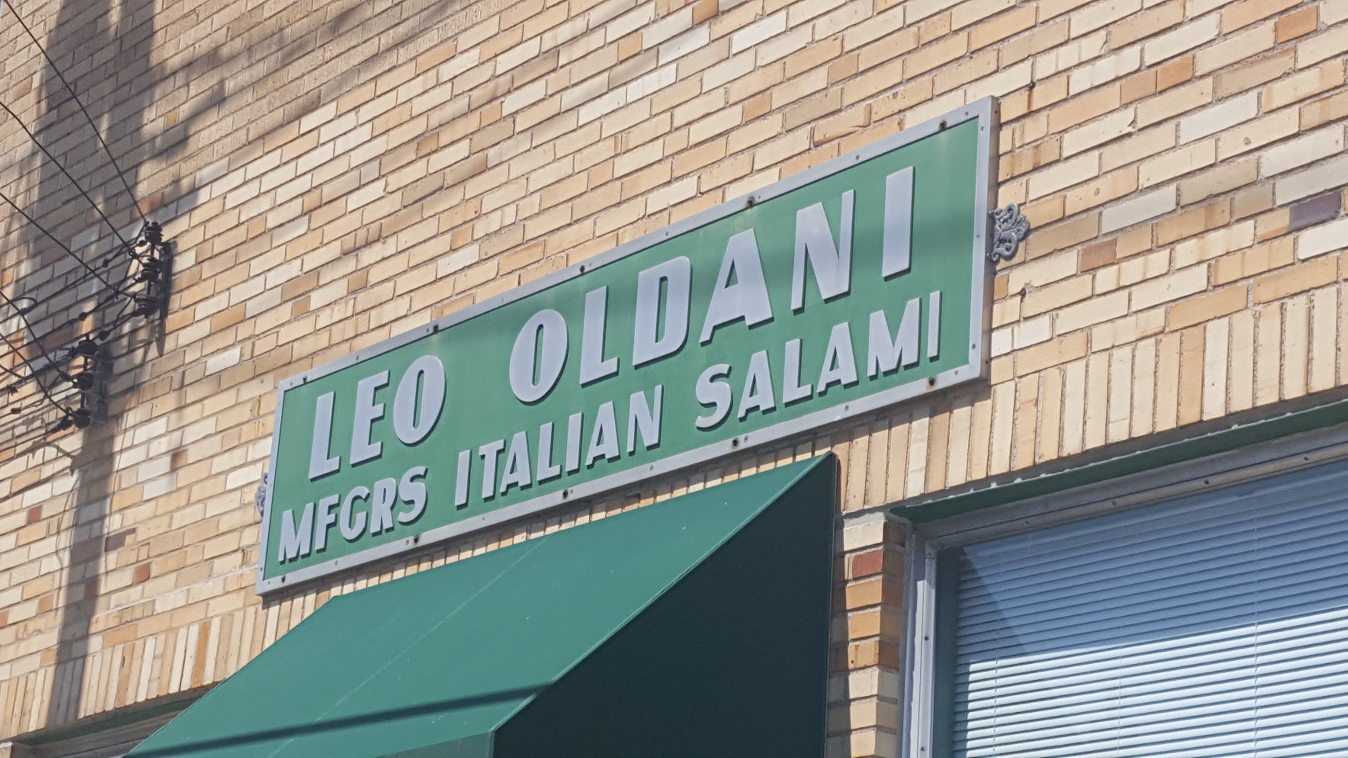 Leo Oldani Mfgrs Italian Salami